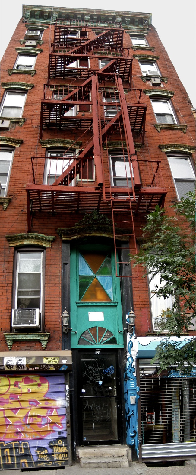 Peter Parker's Home in New York City from Spider-Man